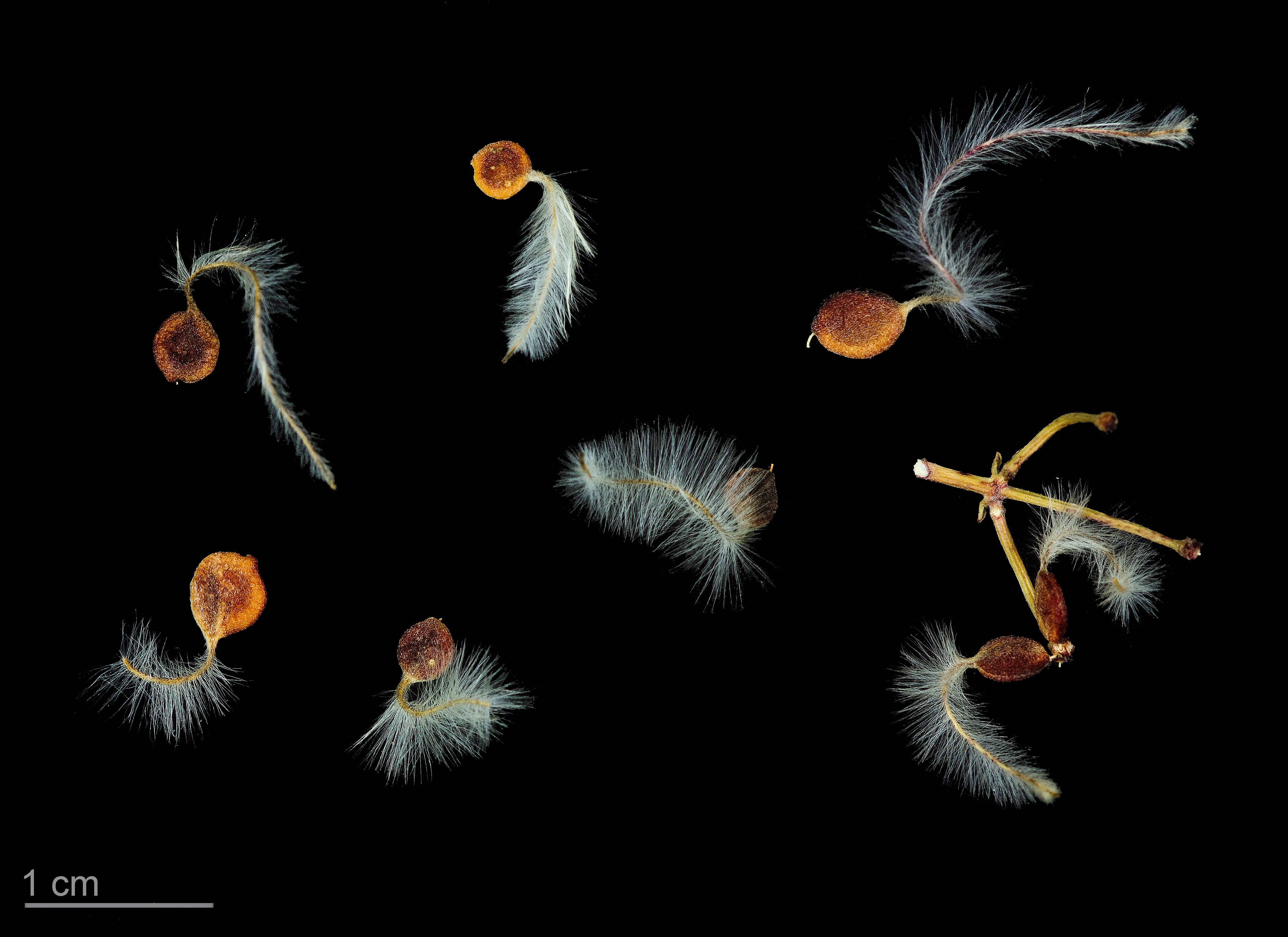 fragrant virgin's bower , fruits and seeds